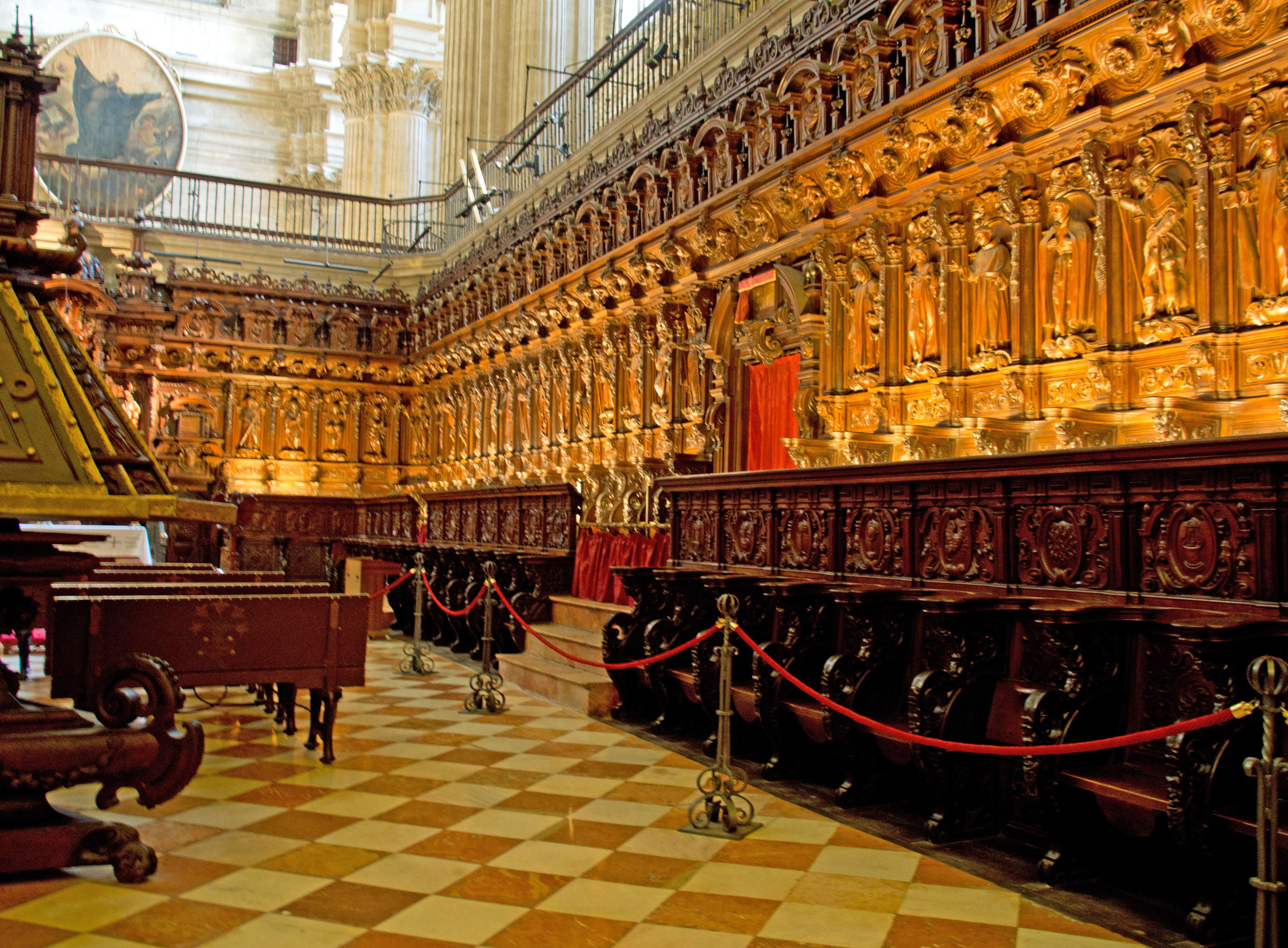 Choir of the Cathedral of Málaga.